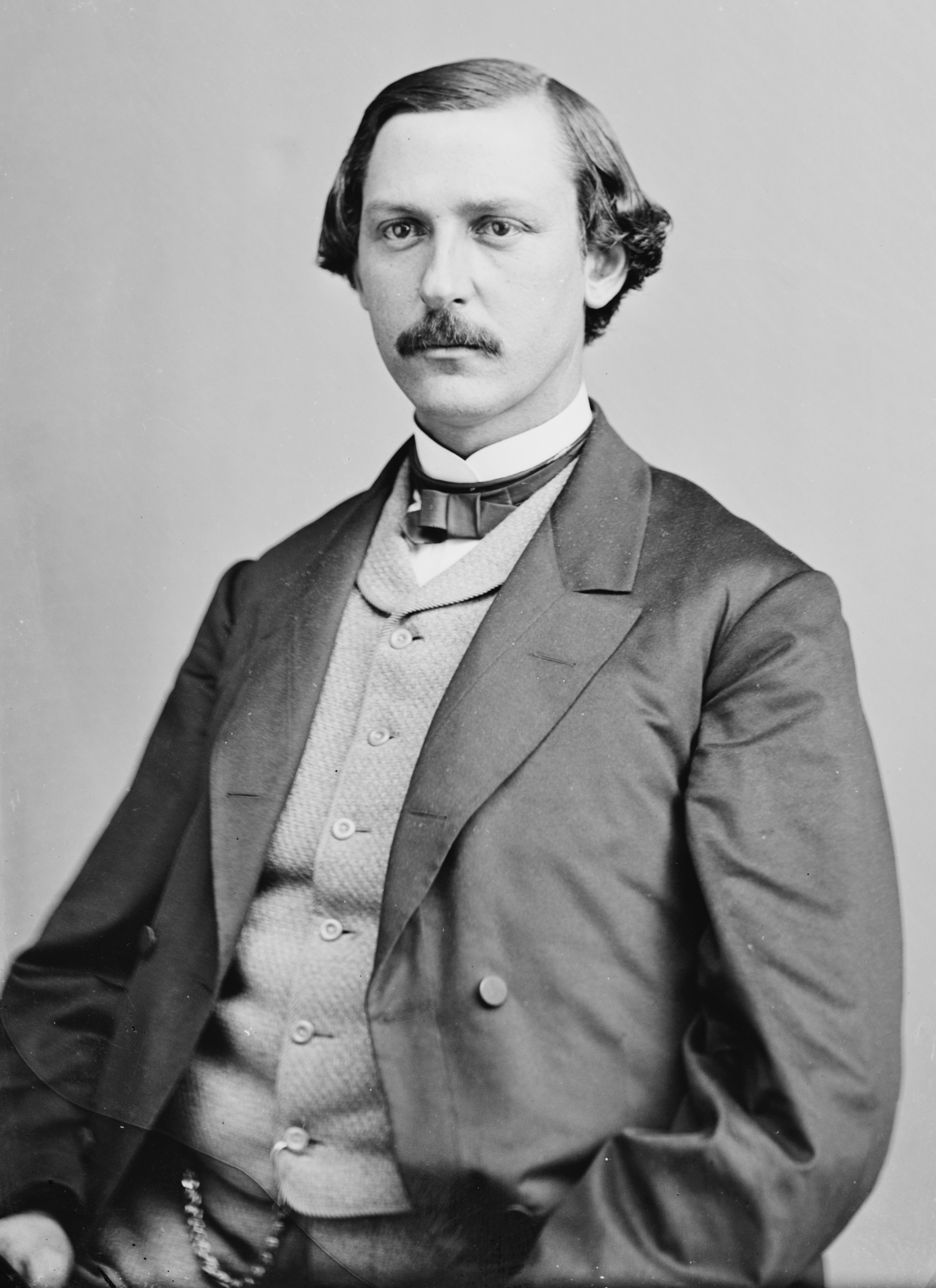 Hon. Andrew J. Rogers.